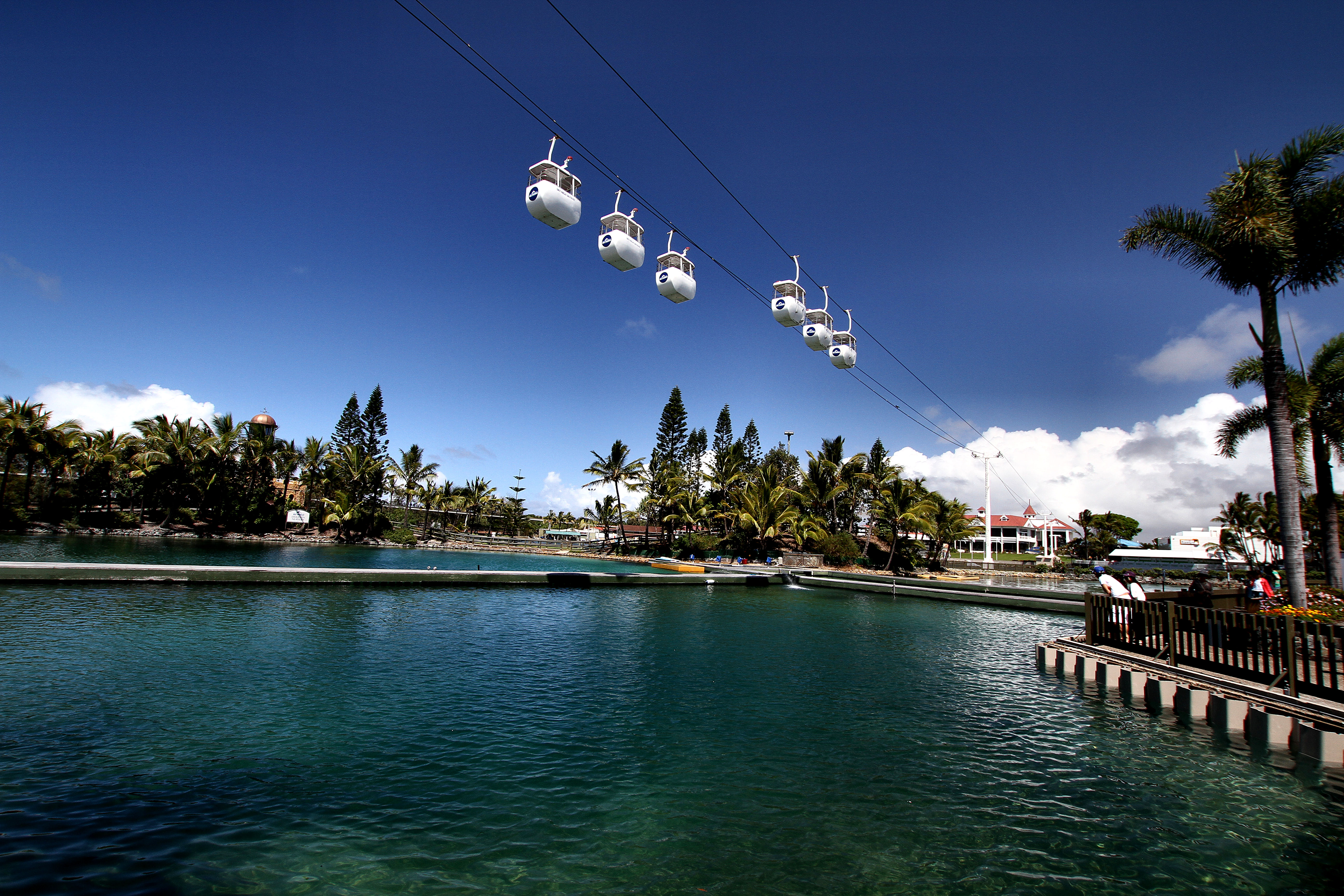 Honeymoon. Gold Coast Australia